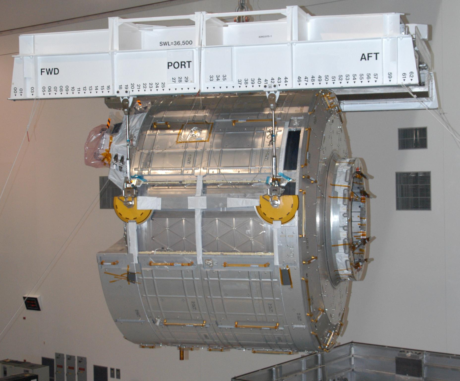 In the Space Station Processing Facility, an overhead crane lifts the JEM Experiment Logistics Module Pressurized Section from its shipping container and moves it toward a scale for weight and center-of-gravity measurements. The module will then be moved to a work stand. The logistics module is one of the components of the Japanese Experiment Module or JEM, also known as Kibo, which means "hope" in Japanese. Kibo comprises six components: two research facilities -- the Pressurized Module and Exposed Facility; a Logistics Module attached to each of them; a Remote Manipulator System; and an Inter-Orbit Communication System unit. Kibo also has a scientific airlock through which experiments are transferred and exposed to the external environment of space. Kibo is Japan's first human space facility and its primary contribution to the station. Kibo will enhance the unique research capabilities of the orbiting complex by providing an additional environment in which astronauts can conduct science experiments. The various components of JEM will be assembled in space over the course of three Space Shuttle missions. The first of those three missions, STS-123, will carry the Experiment Logistics Module Pressurized Section aboard the Space Shuttle Endeavour, targeted for launch in 2007.